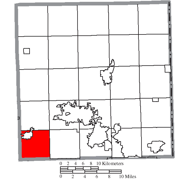 Map of the municipal and township boundaries of Trumbull County, Ohio, United States, as of the 2000 census, with the location of Newton Township highlighted. Township borders are shown only in unincorporated areas in order to differentiate incorporated and unincorporated areas more clearly.